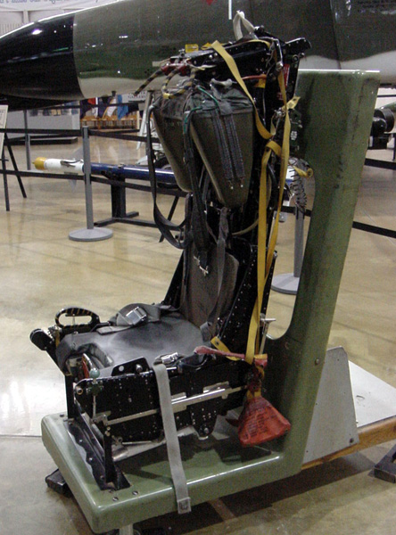 Martin-Baker H5 ejection seat for the F4 Phantom-II